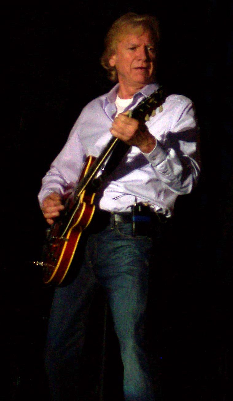 Moody Blues Vocalist/Guitarist Justin Hayward at the Moondance Jam in July 2007. Walker, MN. Photo by Matt Becker.